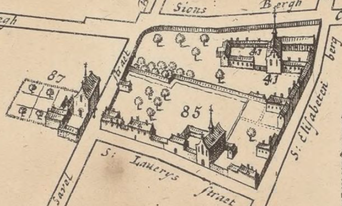 Monasteries of the Capucines (87) and Saint-Elizabeth in Mount Sion (41) in Brussels. Cropped from Bruxella, nobilissima Brabantiæ civitas, 1695